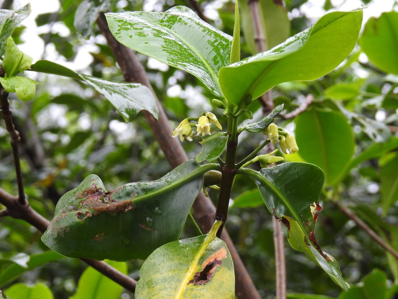 Flowering shoot of red mangrove